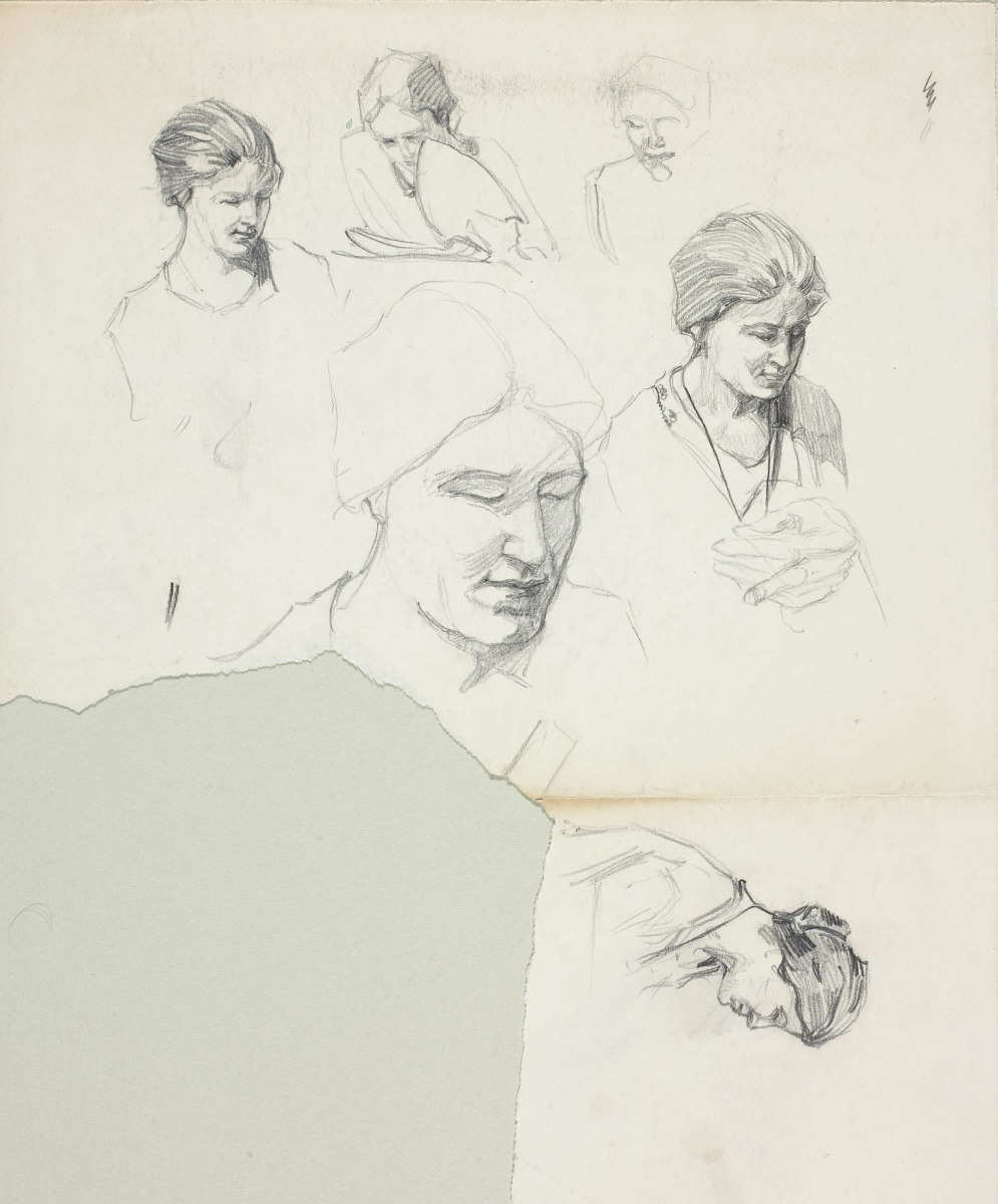 Franklin Carmichael, Studies of Ada Carmichael, c. 1925-1935, graphite on cream wove paper, 37.8 x 28 cm irregular